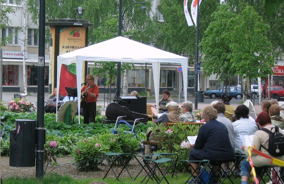 Joensuu Keskuspuisto, public singing night conducted by Arto Pippuri